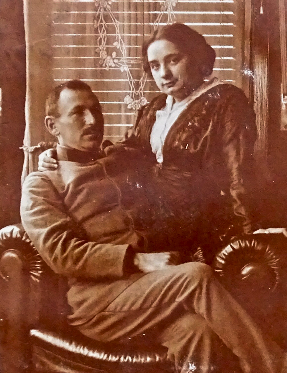 Otto Bamberger (1885–1933) with his wife Henriette "Jetta" Bamberger (1891–1978), née Wolff in Lichtenfels, Upper Franconia, Bavaria, Germany